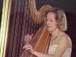 Erzsébet Gaál